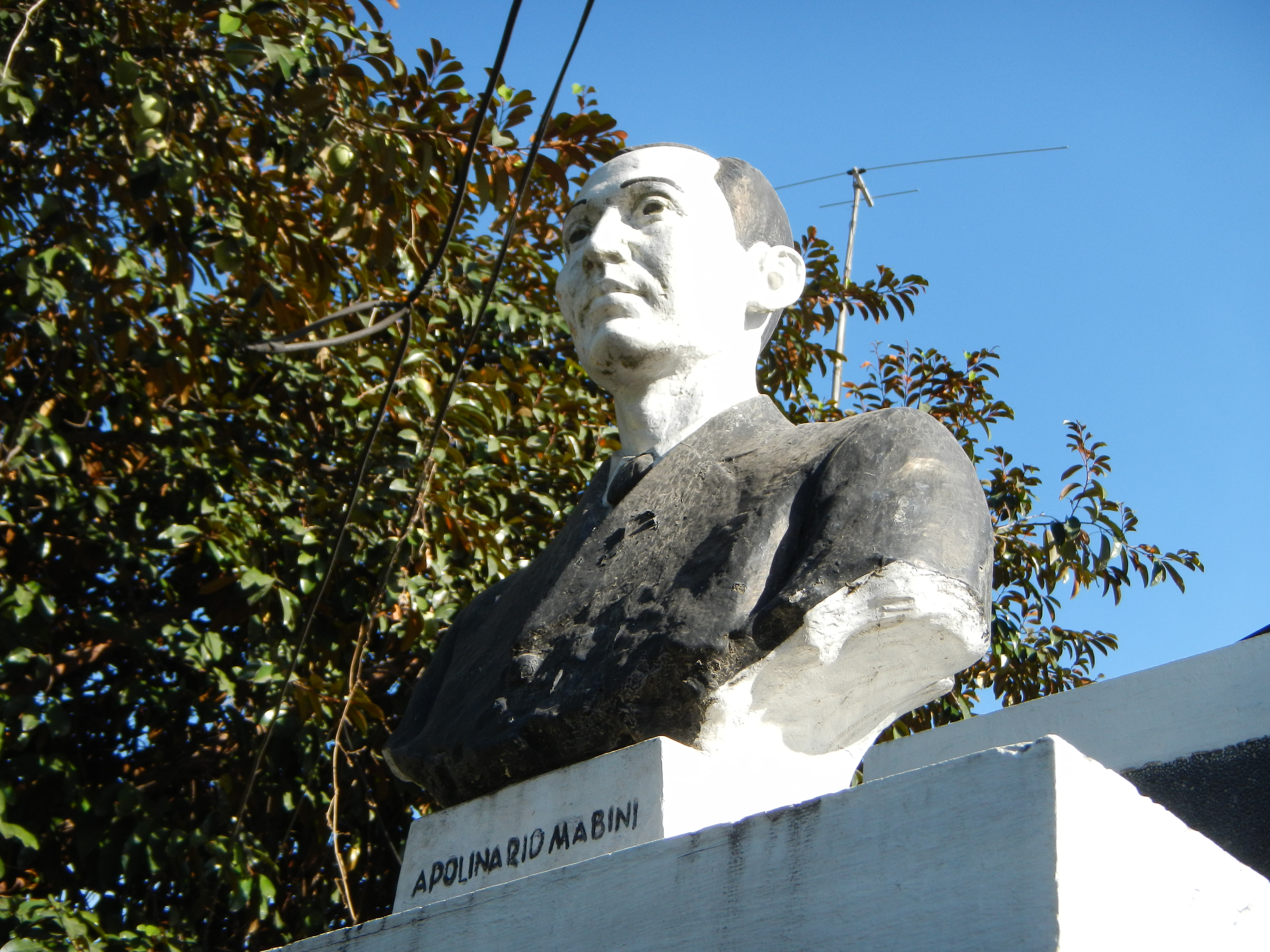 Apolinario Mabini[1] Nampicuan, Nueva Ecija[2]